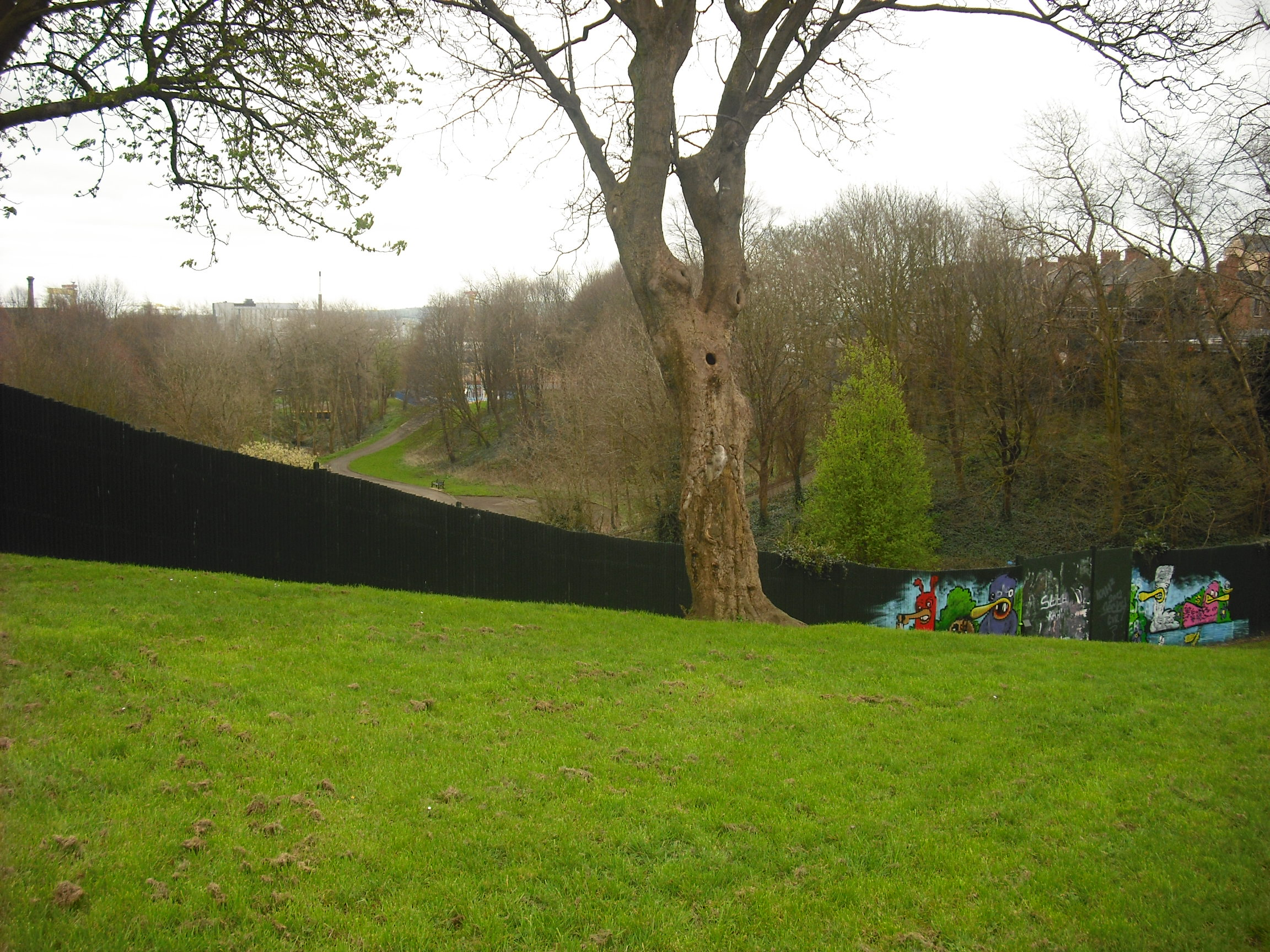 Peaceline running through Alexandra Park, north Belfast